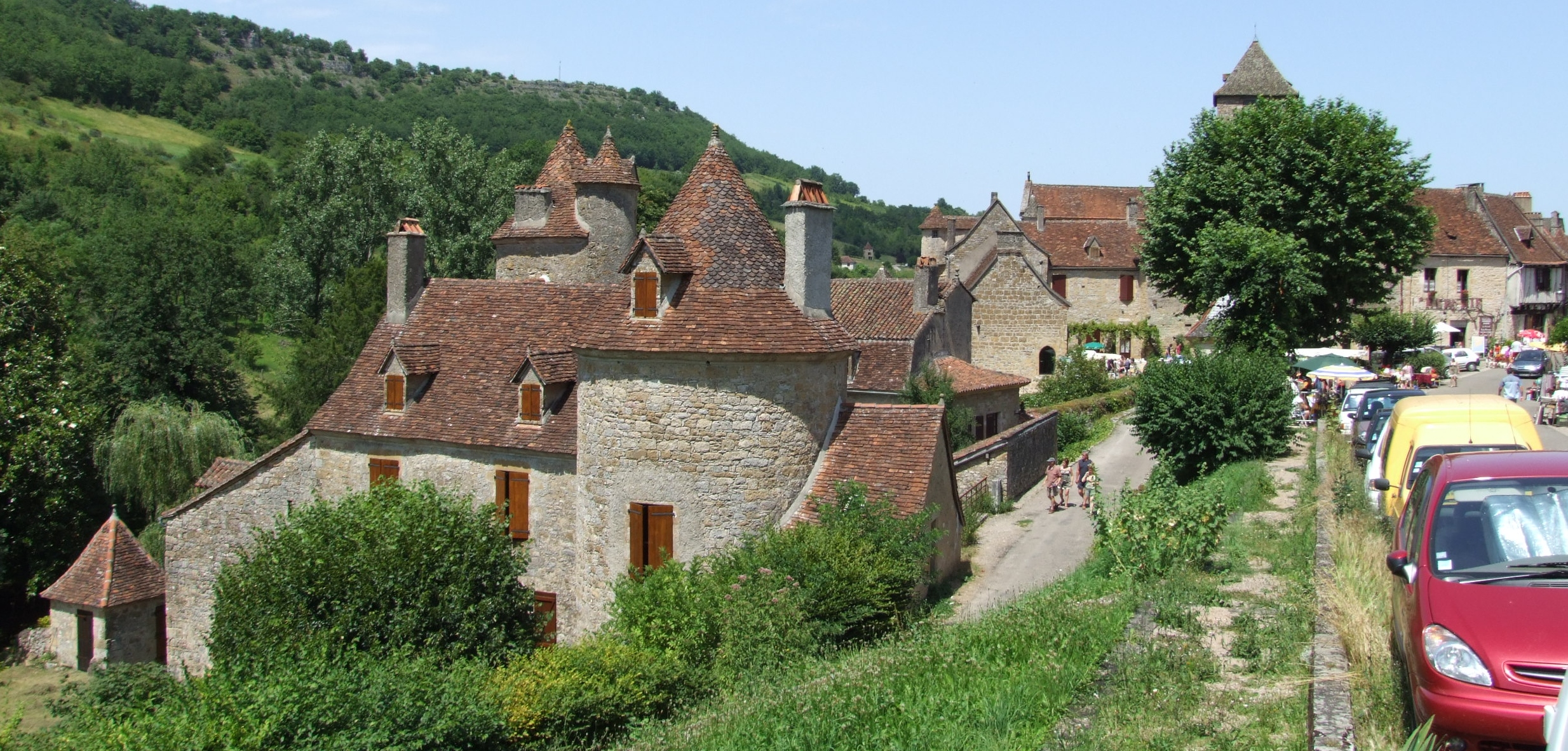 Autoire, Lot, FRANCE